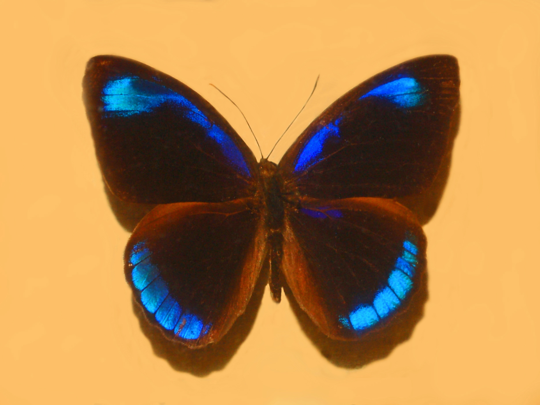 Eunica pomona from Colombia